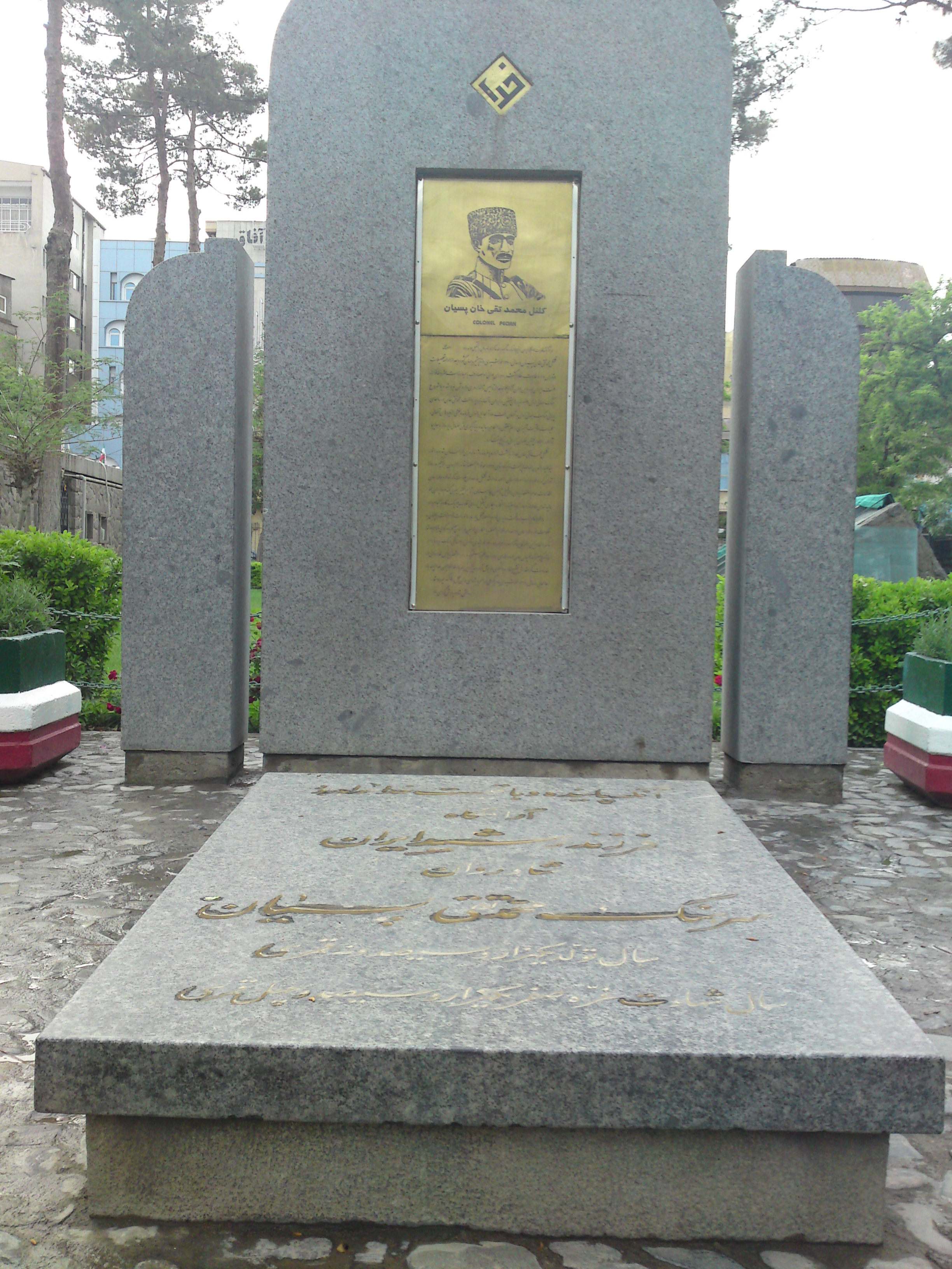 Tomb of Colonel Pessian